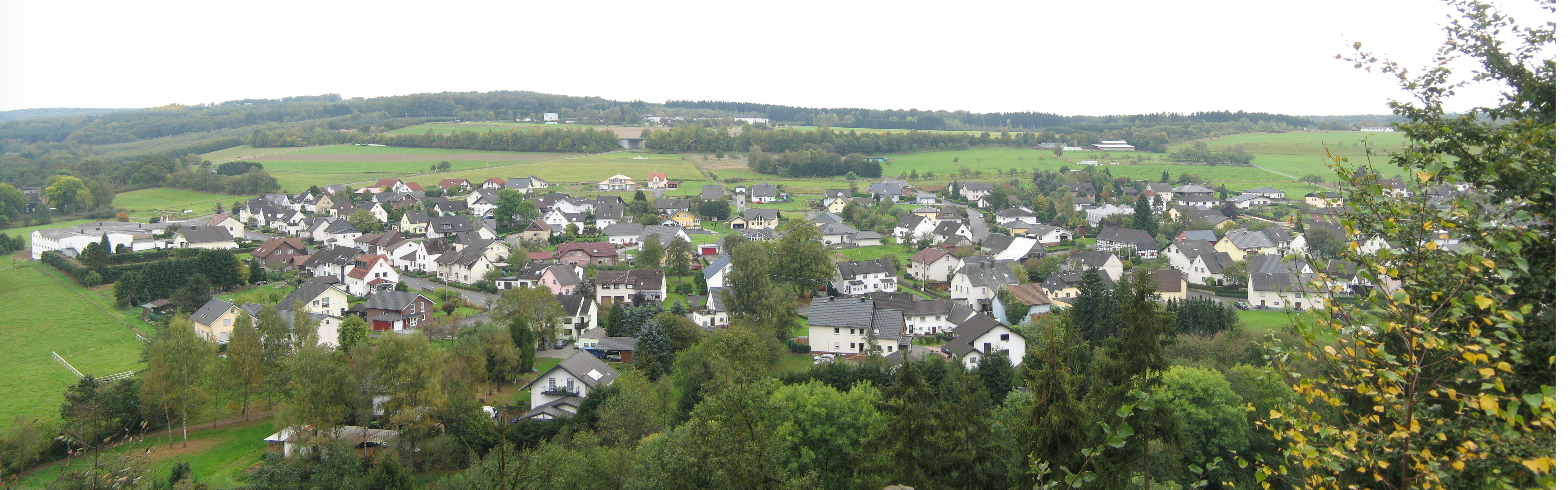 Panorama photo (created with Hugin) of Atzelgift a village in germany.